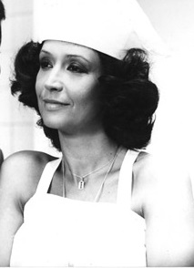 Jorgelina Aranda- actriz y vedette argentina